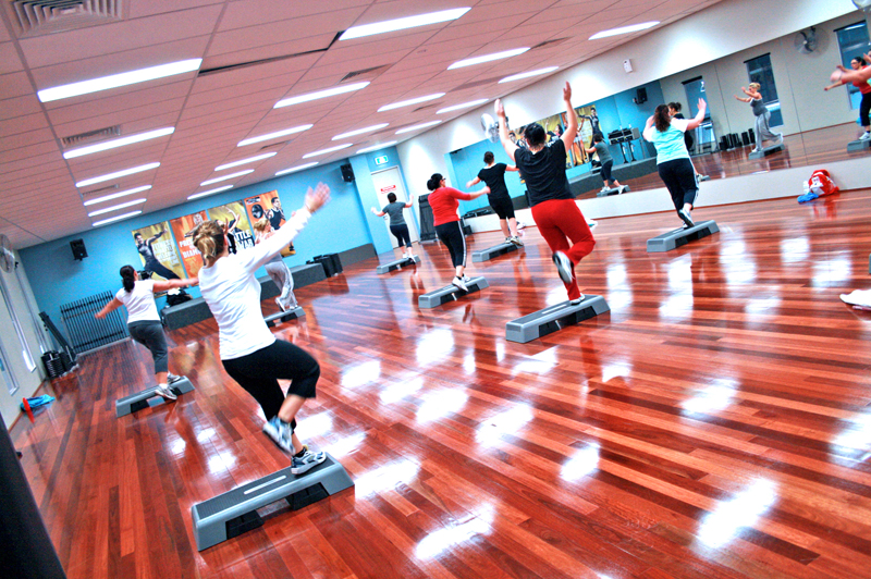 Step Aerobics Class at a Gym